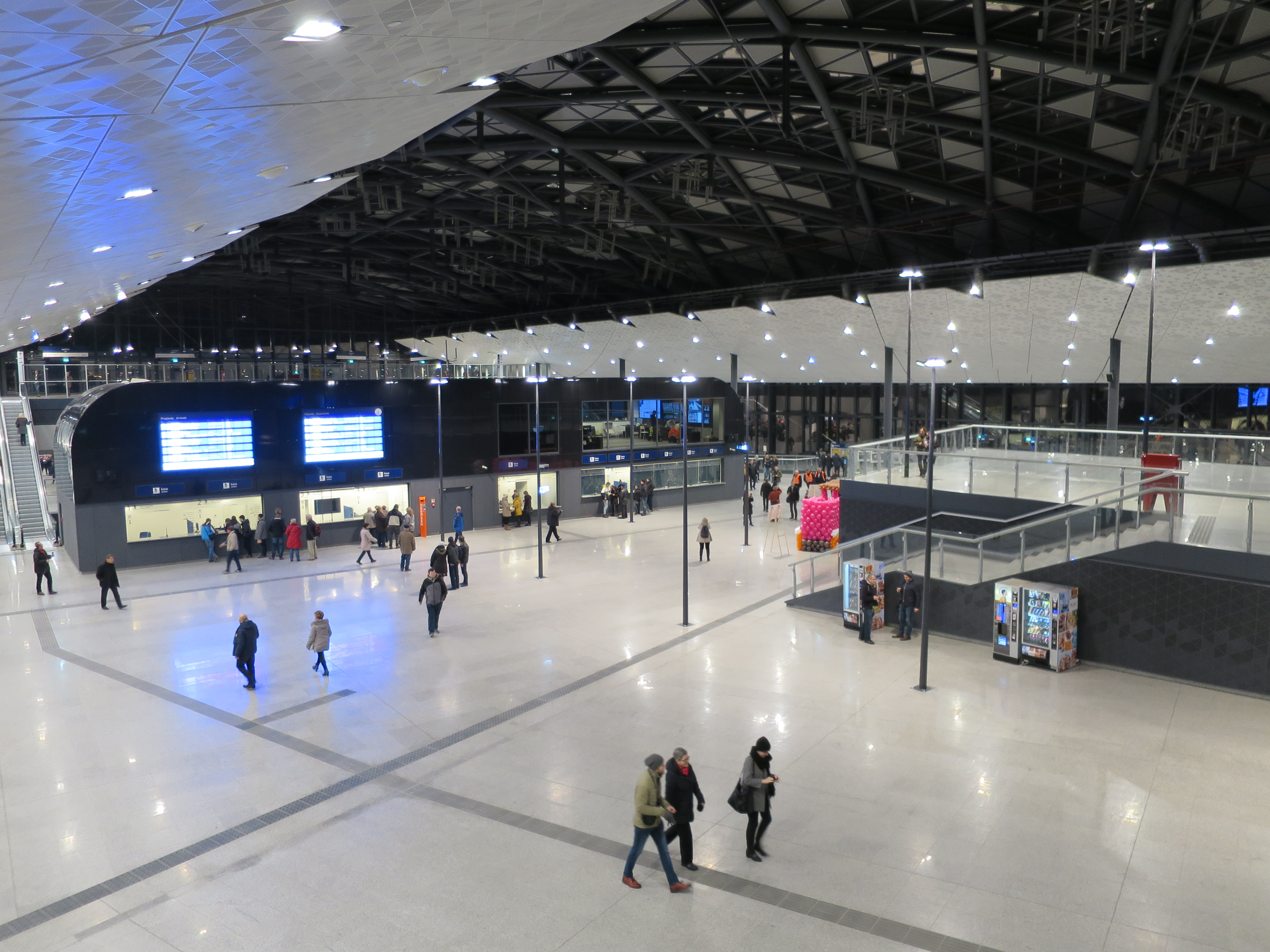 The making of this document was supported by Wikimedia Polska Association, within Wikigrant no. WG 2016-56. Łódź Fabryczna - hol dworca